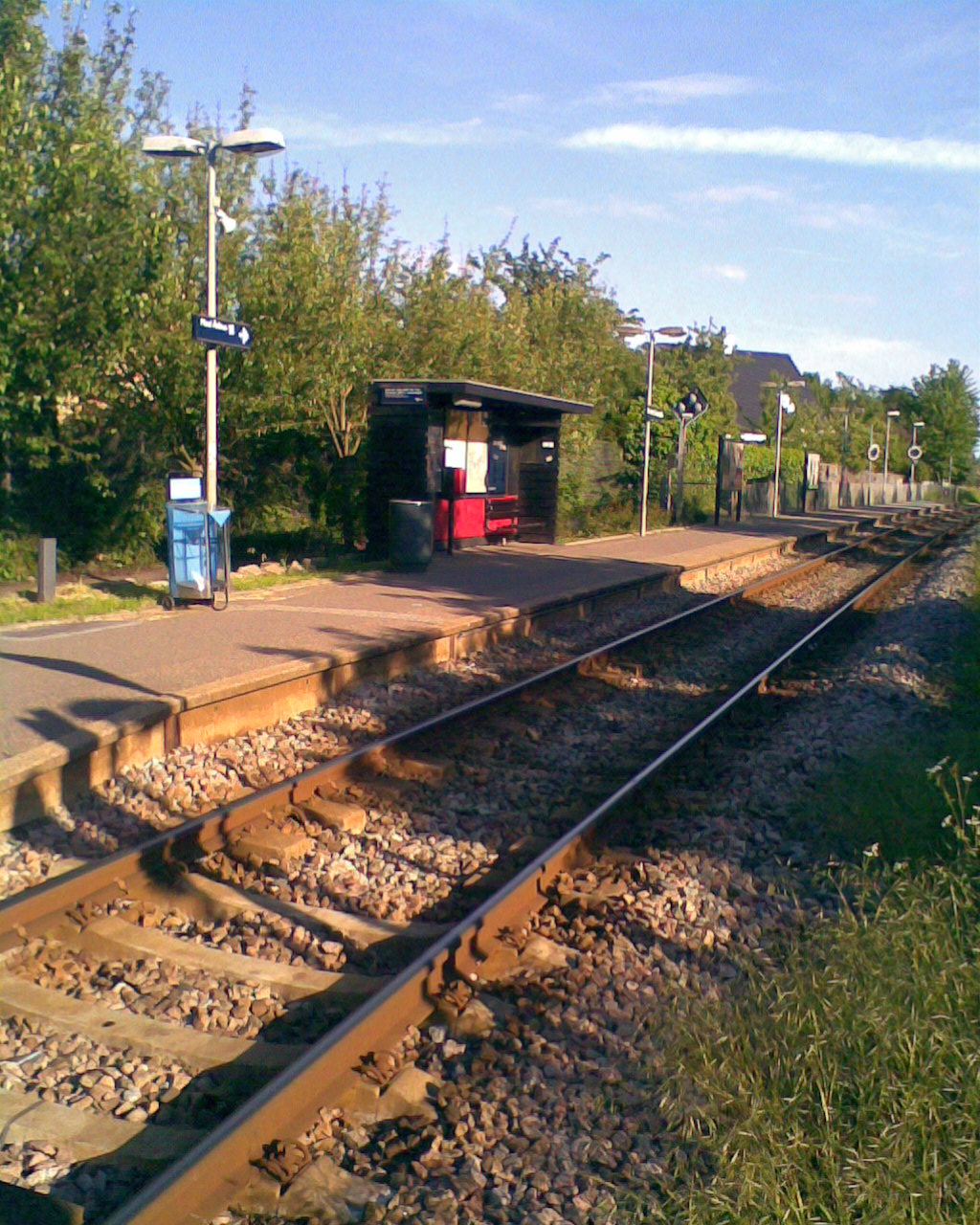 Vestre Strandalle Station, Århus, Denmark